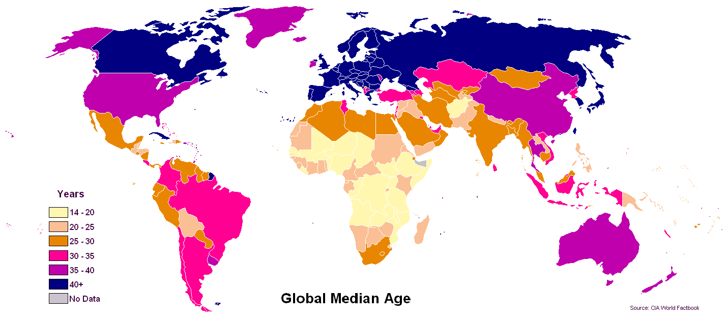 In the Spanish version, this map was created by User:Mortadelo2005. In the English version, this map was created by User:Joeyramoney. However, where did the data come from? English version of Image:Promedio edad mundo.png (pre-2006). For 2015 map in SVG format: 2017 world map, median age by country.svg